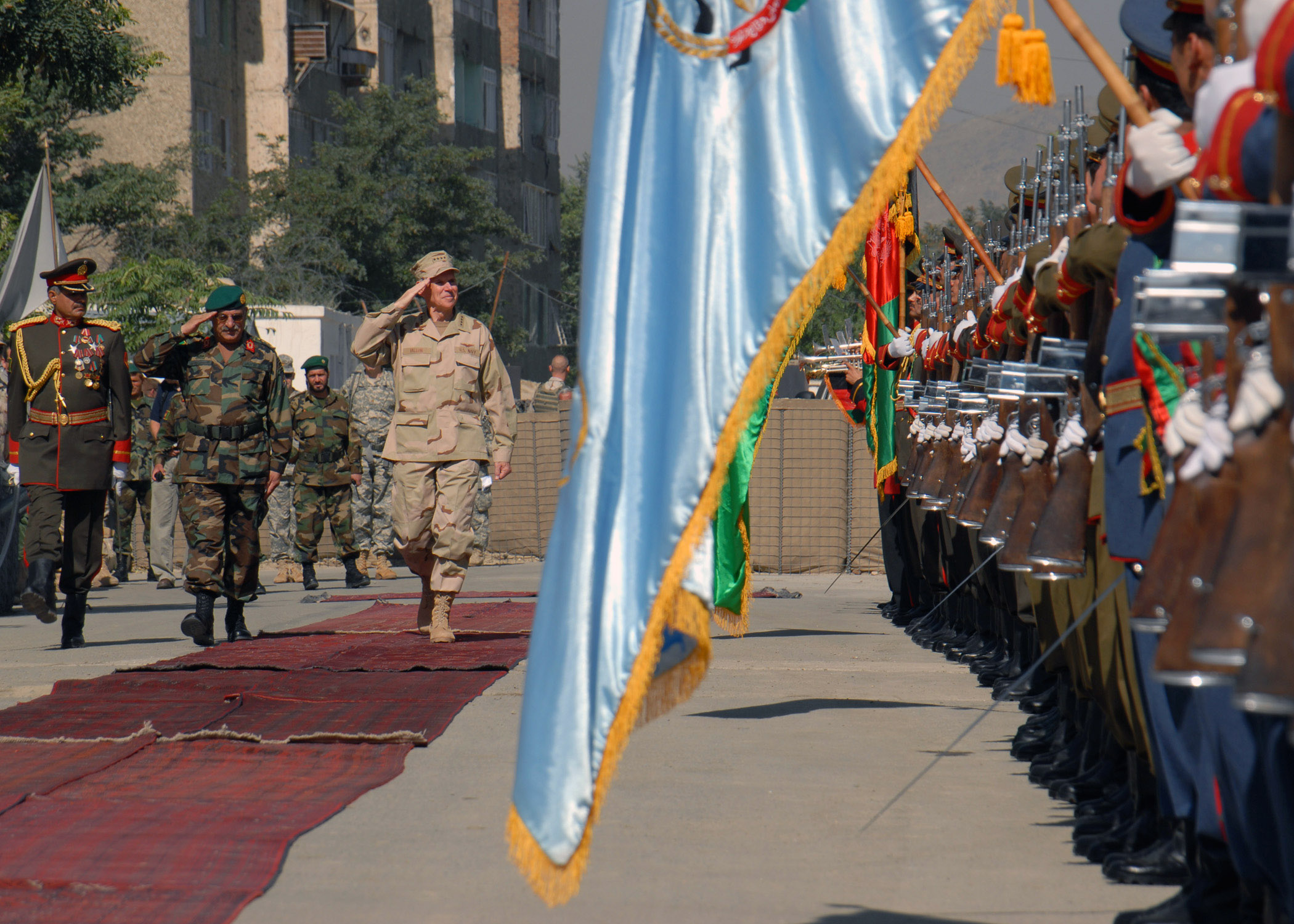 Kabul, Afghanistan (July 16, 2007) - Adm. William J. Fallon Commander of U.S. Central Command salutes the Afghan honor guard on hand at the change of command ceremony for Combined Security Transition Command-Afghanistan (CSTC-A). Brig. Gen. Robert W. Cone took the reigns of command from Maj. Gen. Robert E. Durbin, becoming CSTC-A's 2nd commanding general. U.S. Navy photo (RELEASED)